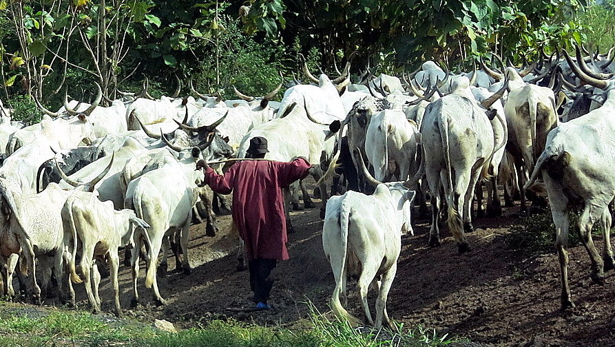 This is an image of "African people at work" from Togo